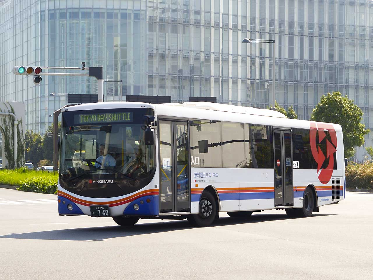 Fleet of Tokyo Bay Shuttle by Hinomaru Jidosha Kogyo. Model: Designline & MAN chassis License plate: TKN200 KA-760 Place: neighbour of Palette Town, Aomi, Koto ward, Tokyo, Japan